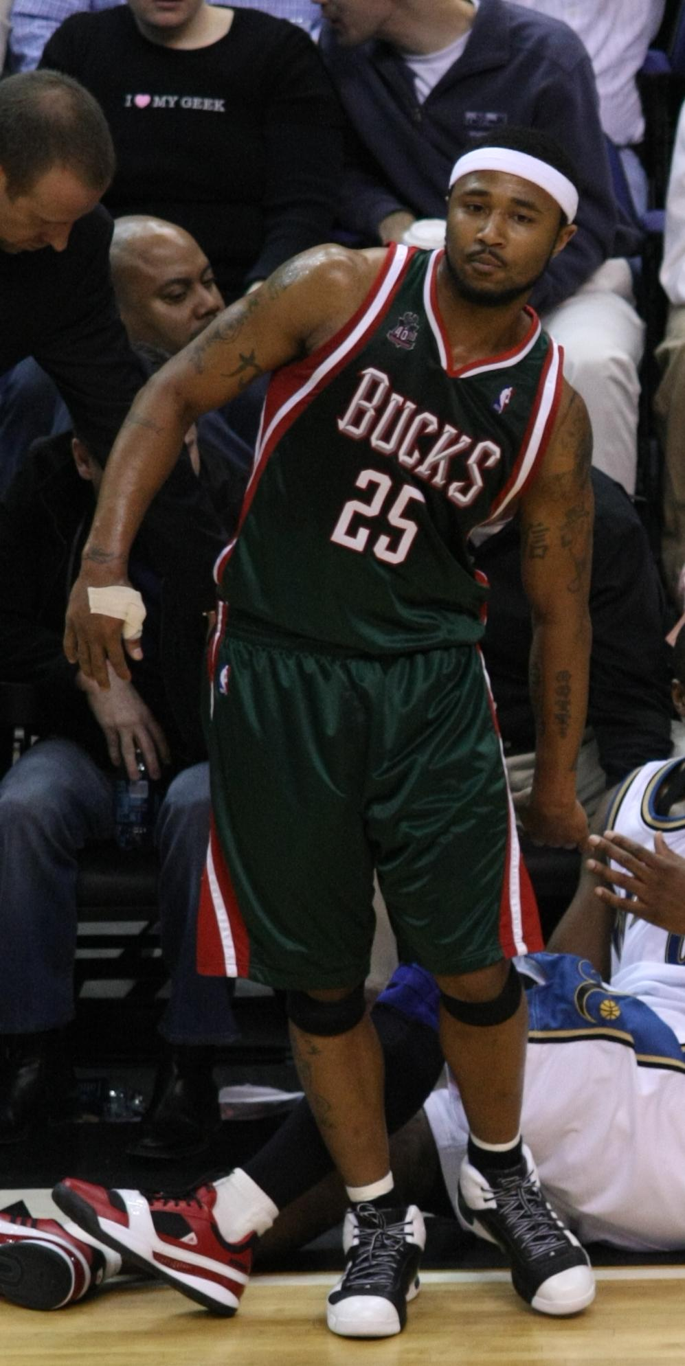 Maurice Williams playing with the Milwaukee Bucks